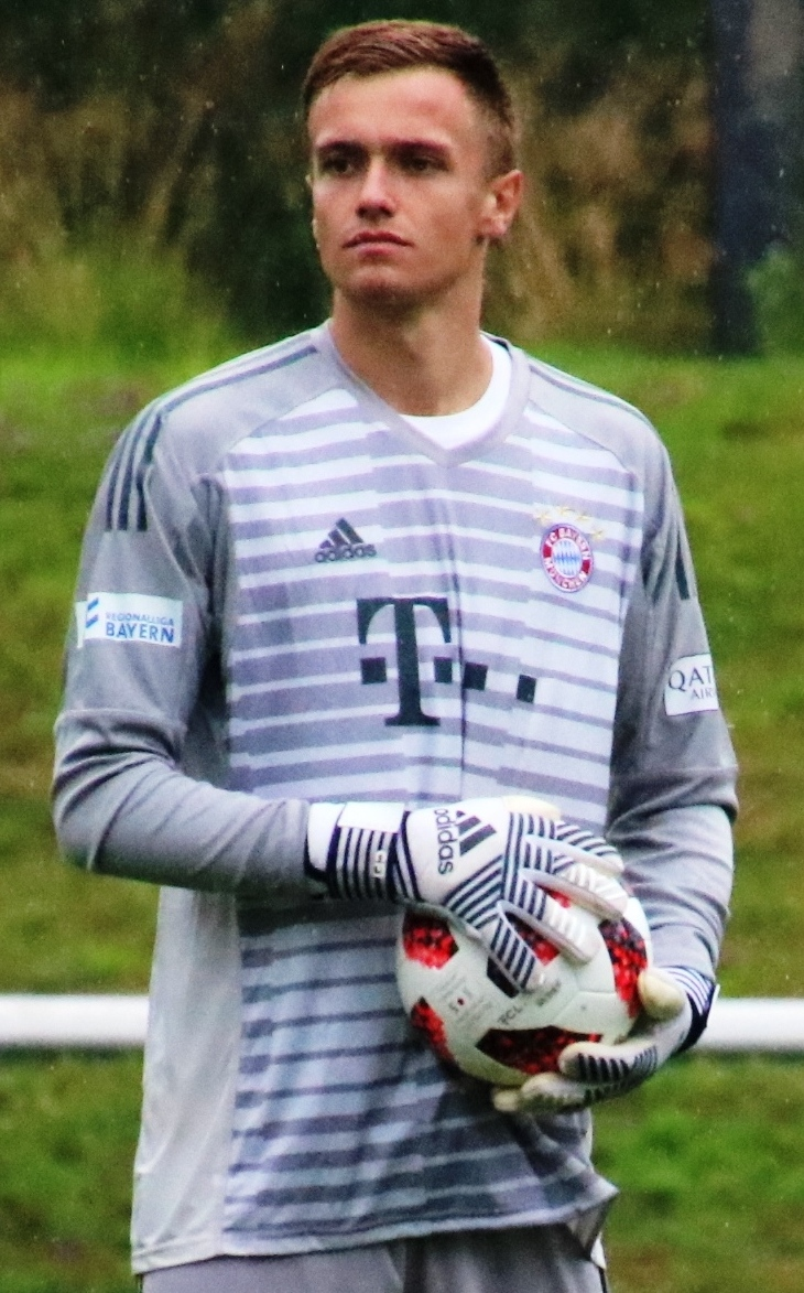 preseasonnmatch 2018/19